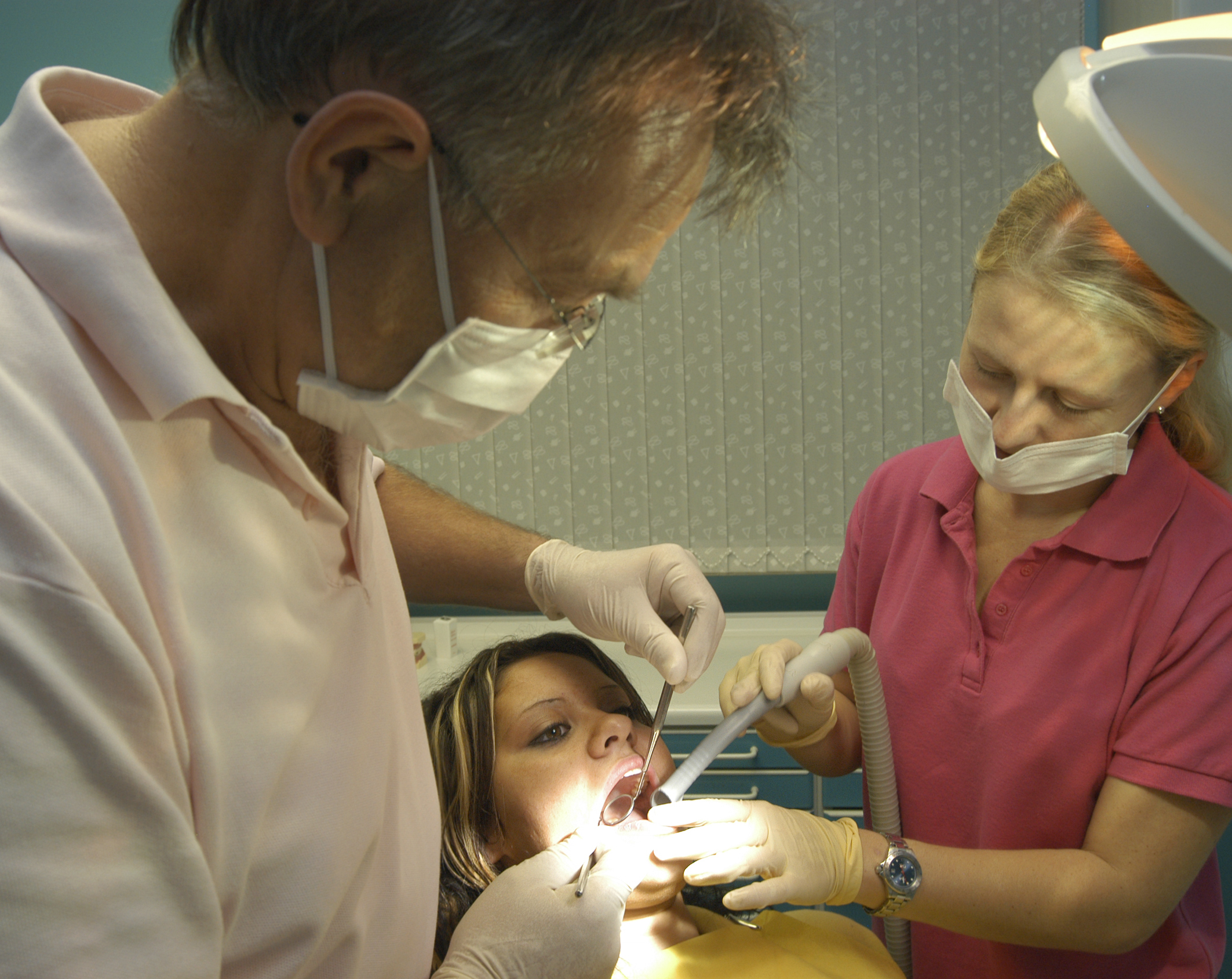 girl having a dental examination